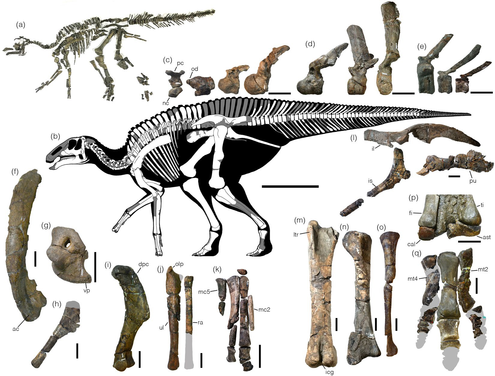 The holotype skeleton of Kamuysaurus japonicus gen. et sp. nov. (b) Reconstructed skeleton, showing recovered elements. Selected postcranial elements: cervical vertebrae (atlas, axis, and fourth and twelfth cervicals) in left lateral view (c), dorsal vertebrae (first, seventh, and sixteenth dorsals) in left lateral view (d), caudal vertebrae (anterior, middle, and posterior caudals) in left lateral view (e), left scapula (f) and coracoid (g) in lateral view, right sternum in ventral view (h), left humerus in anterior view (i), right ulna and radius in medial view (j), right manus in dorsal view (k), right pelvis in lateral view (l), right femur in anterior view (m), right tibia in anterior view (n), right fibula in lateral view (o), right astragalus and calcaneum, articulated positioned with tibia (p), and right pes in dorsal view (q). All scales are 10 cm except 1 m scale for (b). Abbreviations; ac, acromion process; ast, astragalus; cal, calcaneum; dpc, deltopectoral crest; fi, fibula; icg, intercondylar groove; il, ilium; is, ischium; ltr, lesser trochanter; mc2, metacarpal II; mc5, metacarpal V; mt2, metatarsal II; mt4, metatarsal IV; nc, neurocentrum; od, odontoid; olp, olecranon process; pc, pleurocentrum; pu, pubis; ra, radius; ti, tibia; ul, ulna; vp, ventral process.